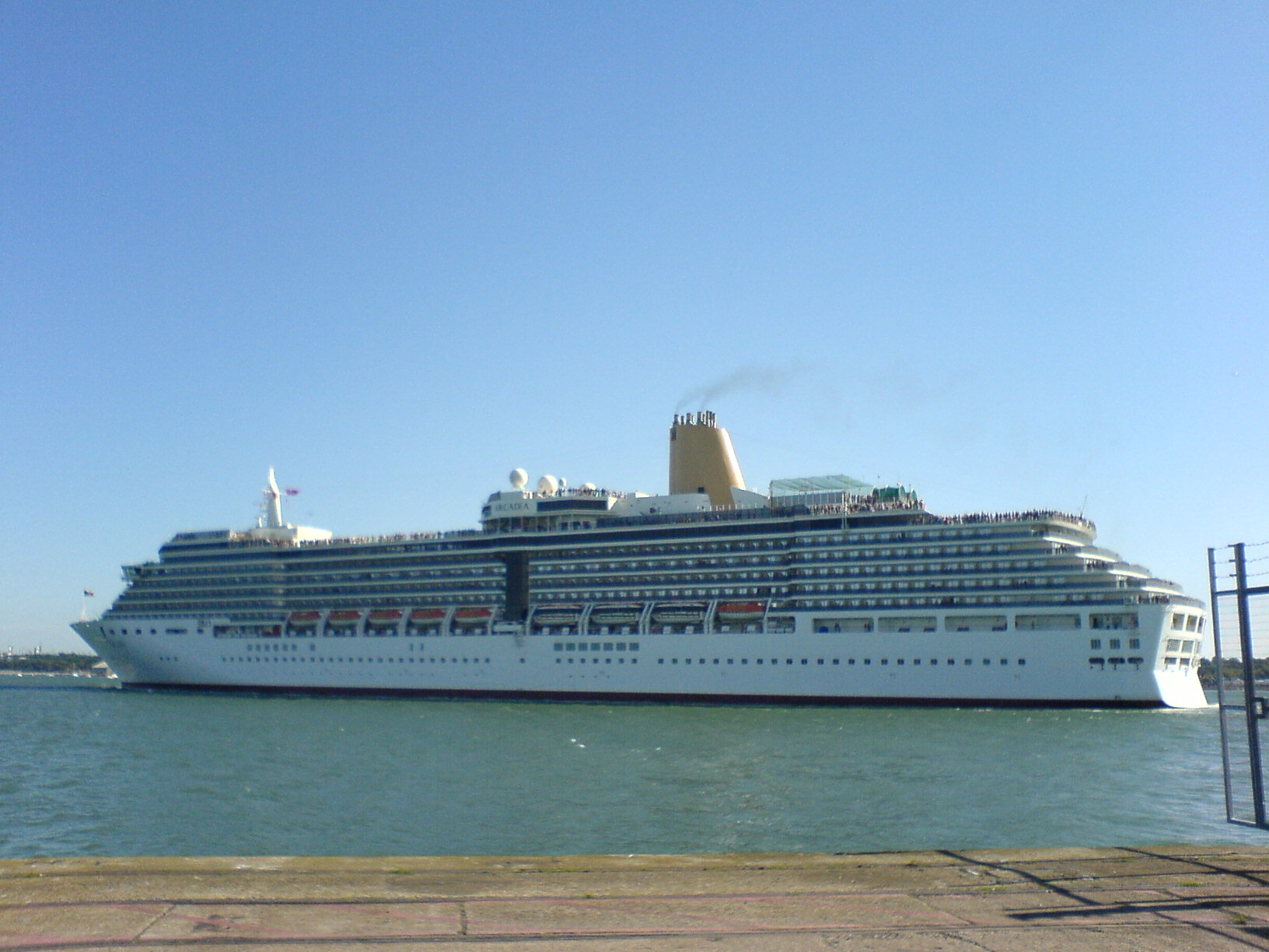 Arcadia Cruise Ship Leaving Southampton